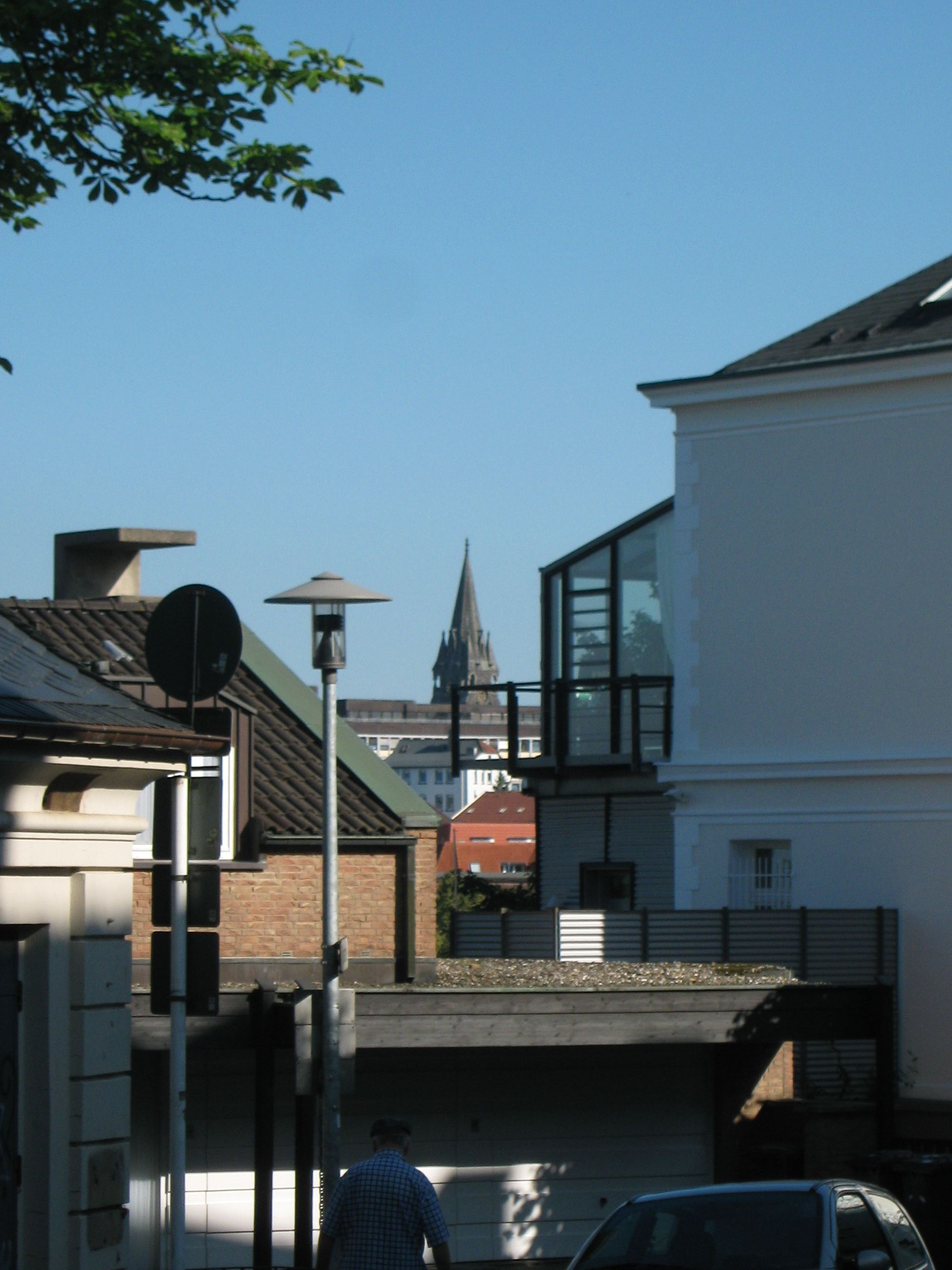 View to the Christuskirche Lüdenscheid.jpg